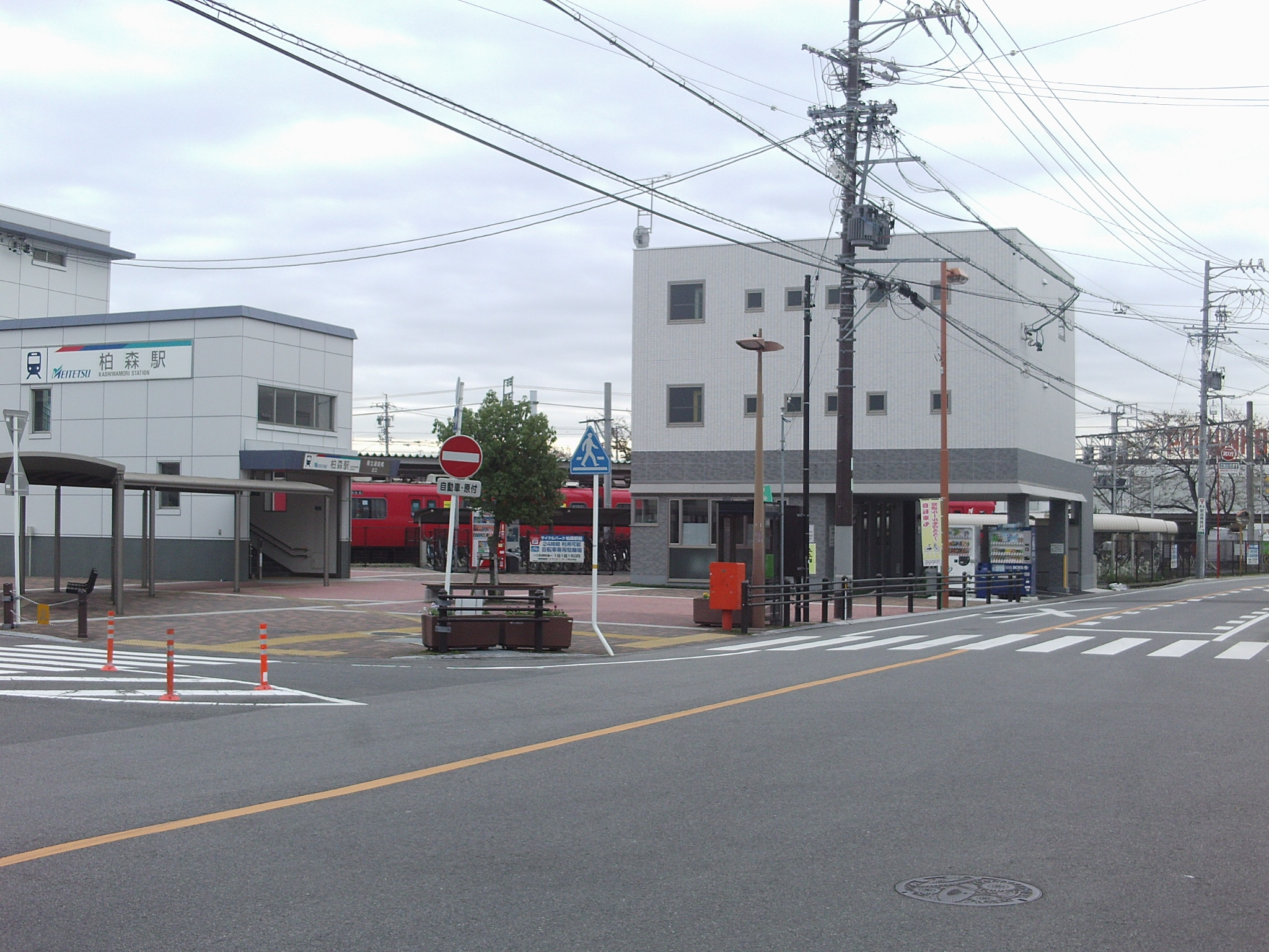 Aichi prefectural road No.250 in Kashiwamori, Fuso-cho, Niwa-gun, Aichi.